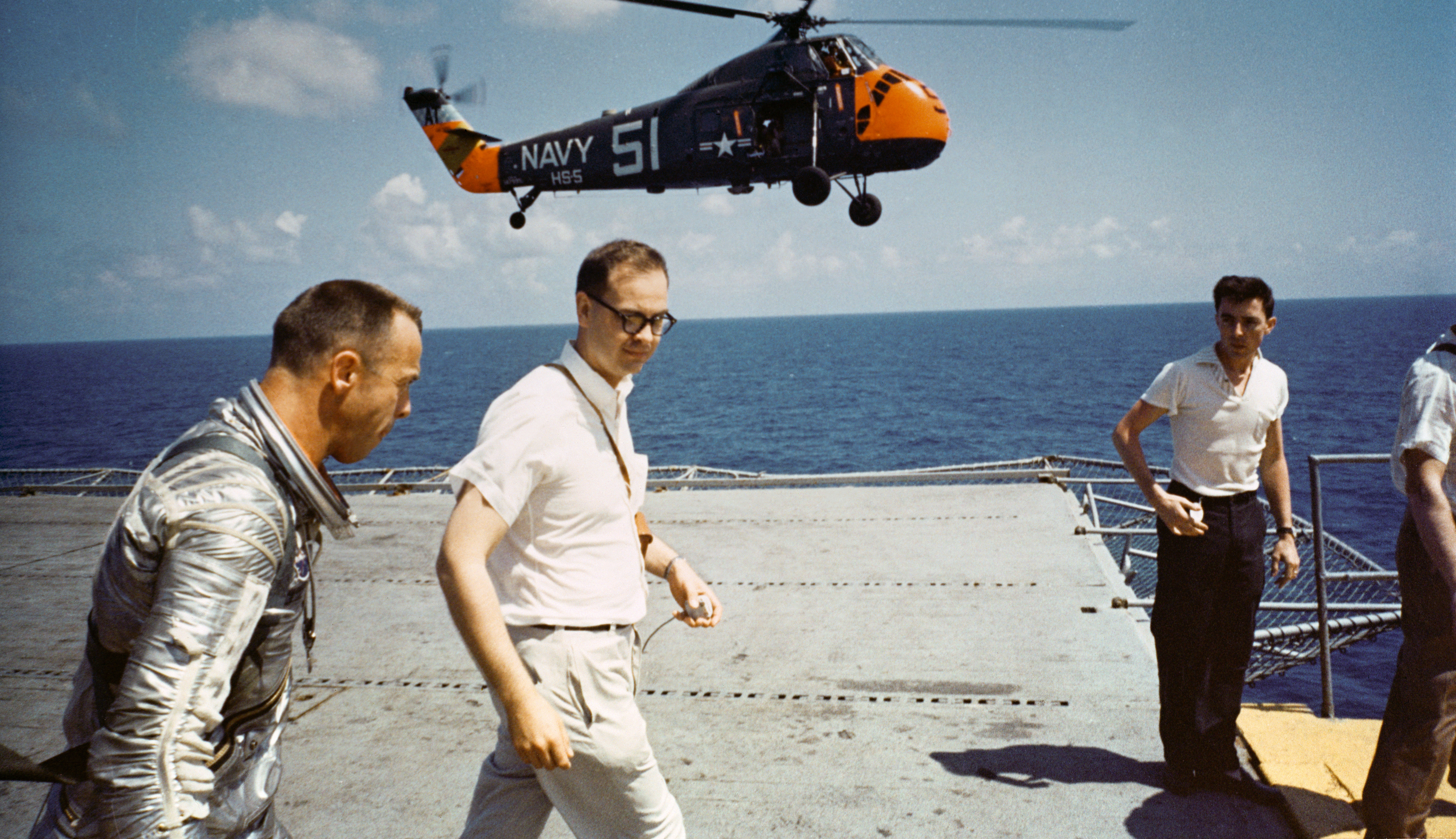 The U.S. astronaut Alan B. Shepard on the deck of the aircraft carrier USS Lake Champlain (CVS-39) after the recovery of his Freedom 7 Mercury space capsule, 5 May 1961. In the background is a Sikorsky HSS-1N Seabat helicopter of helicopter anti-submarine squadron HS-5 Night Dippers, Carrier Anti-Submarine Air Group 54 (CVSG-54).